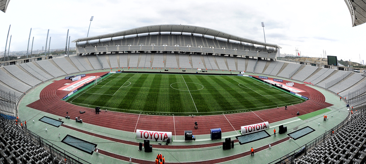 Atatürk Olympic Stadium in Istanbul, Turkey